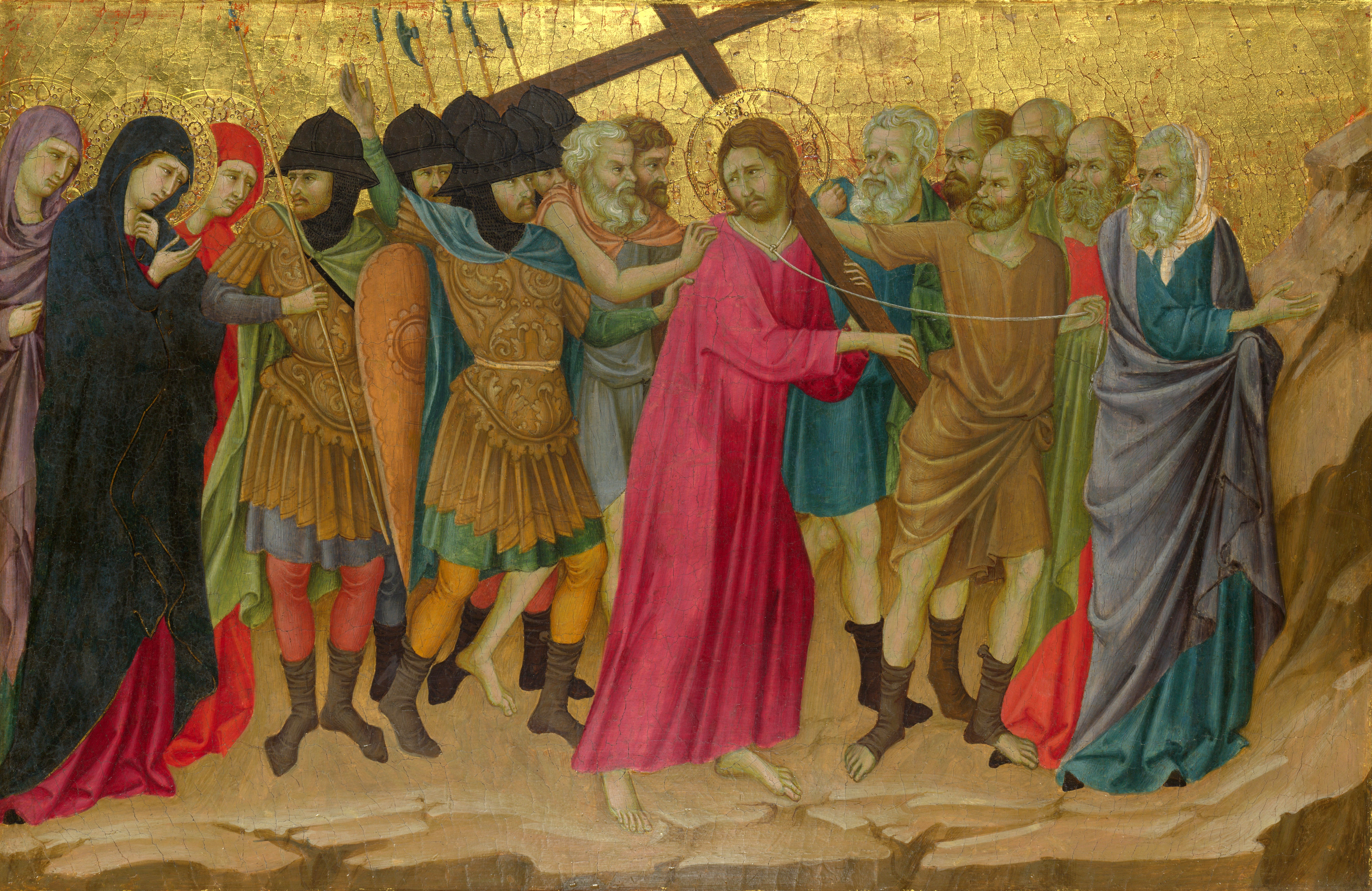 Way to Calvary.